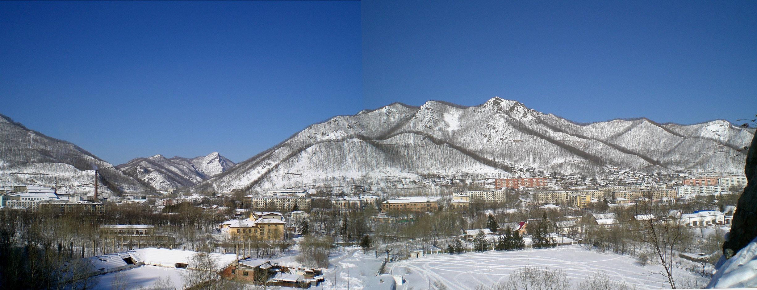 Dalnegorsk